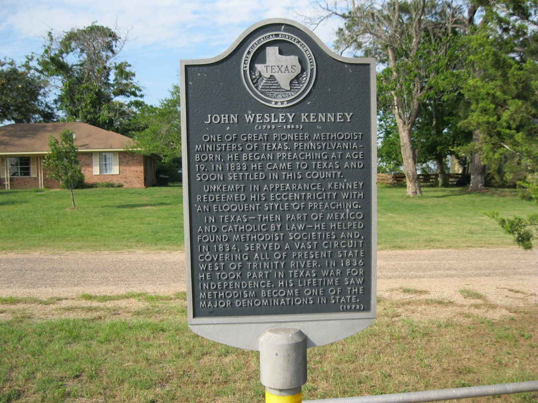 Photo shows a state historical marker on Hall Road in Kenney, Texas. The marker explains that John Wesley Kenney came to Texas in 1833 as a Methodist preacher. The view to toward the northeast.